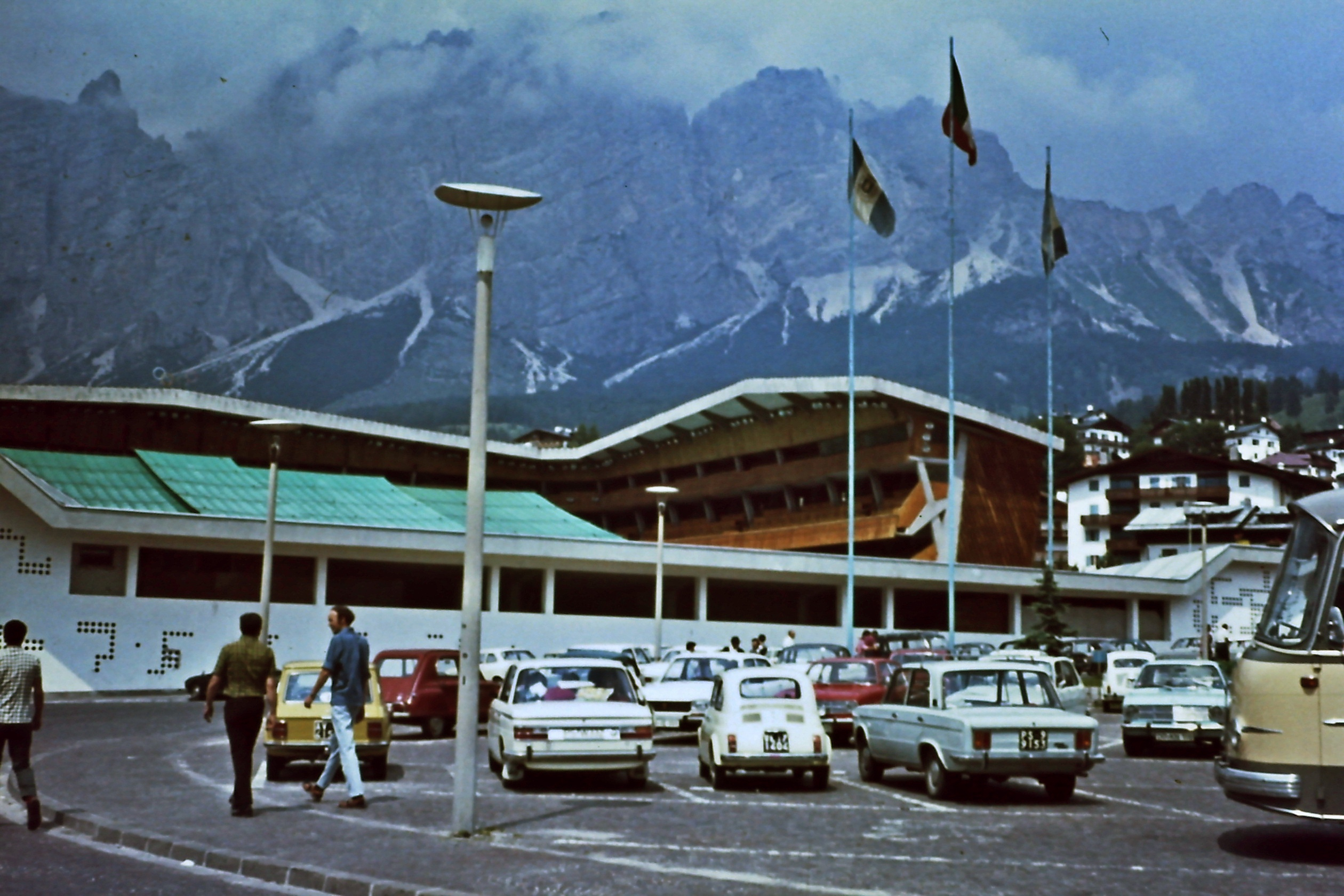 The olympic ice pavilion in Cortina d'Ampezzo in summer 1971